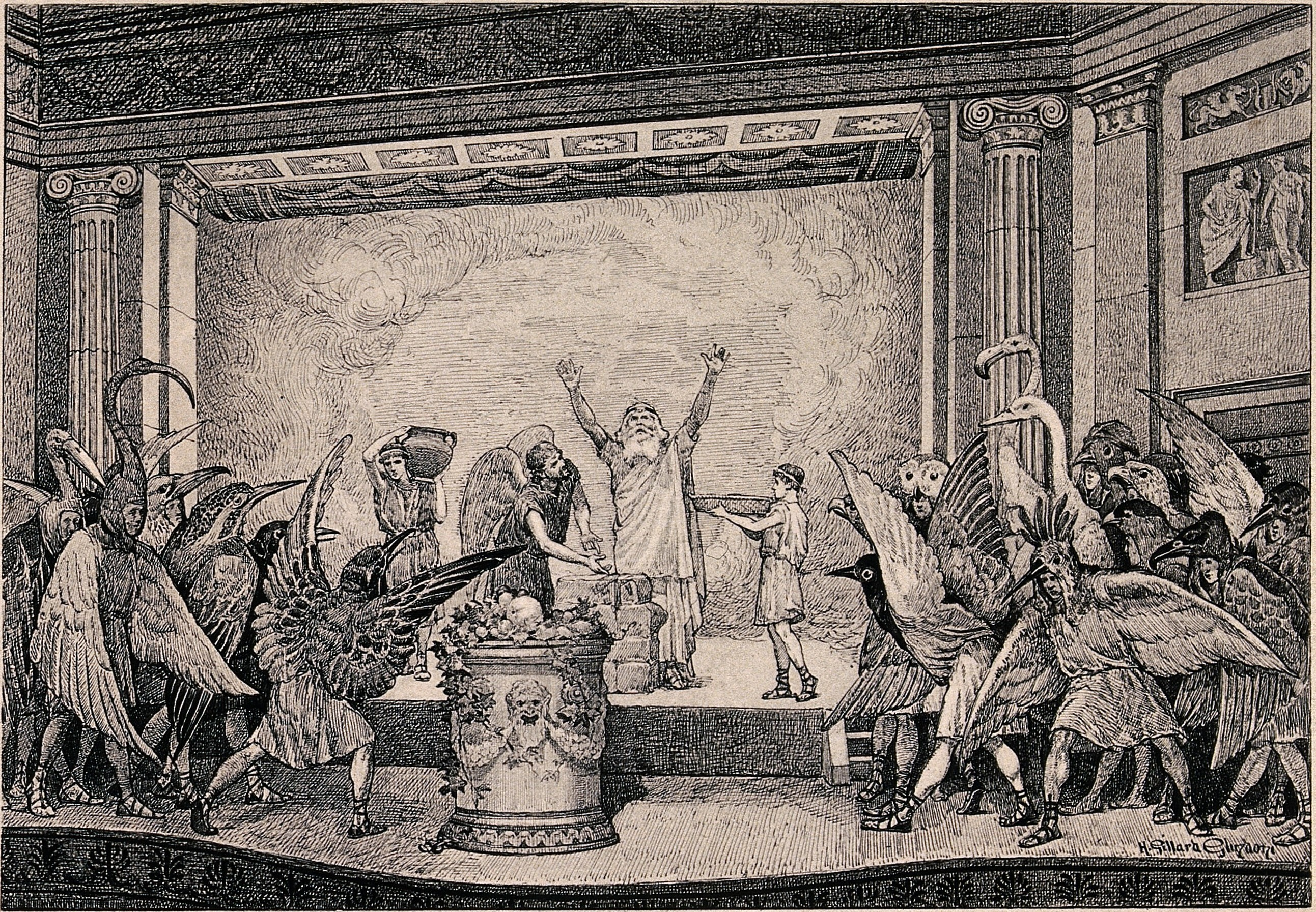 A performance of the play Birds by Aristophanes: a man is performing on a stage attended by a man with wings and a young boy, other people dressed in bird costume are gathered around the front of the stage. Etching by Henry Gillard Glindoni. Iconographic Collections Keywords: Henry Gillard Glindoni; Aristophanes